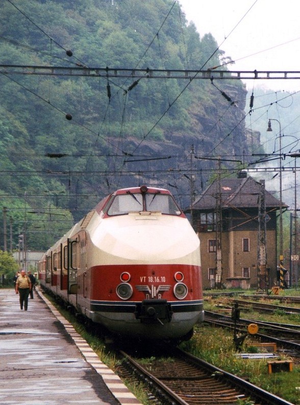 diesel multiple unit DR VT 18.16 in station Děčín, czech republic